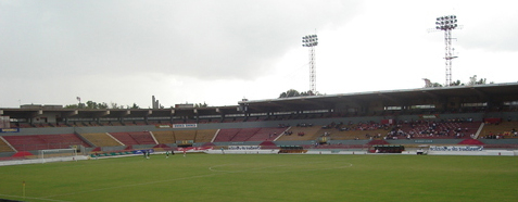 before tecos vs atlas